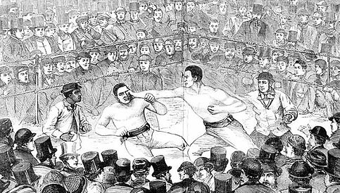 Black and white published drawing of first 1862 championship fight between Jem Mace and Tom King with King striking a blow to Maces eye with his right in ring surrounded by spectators